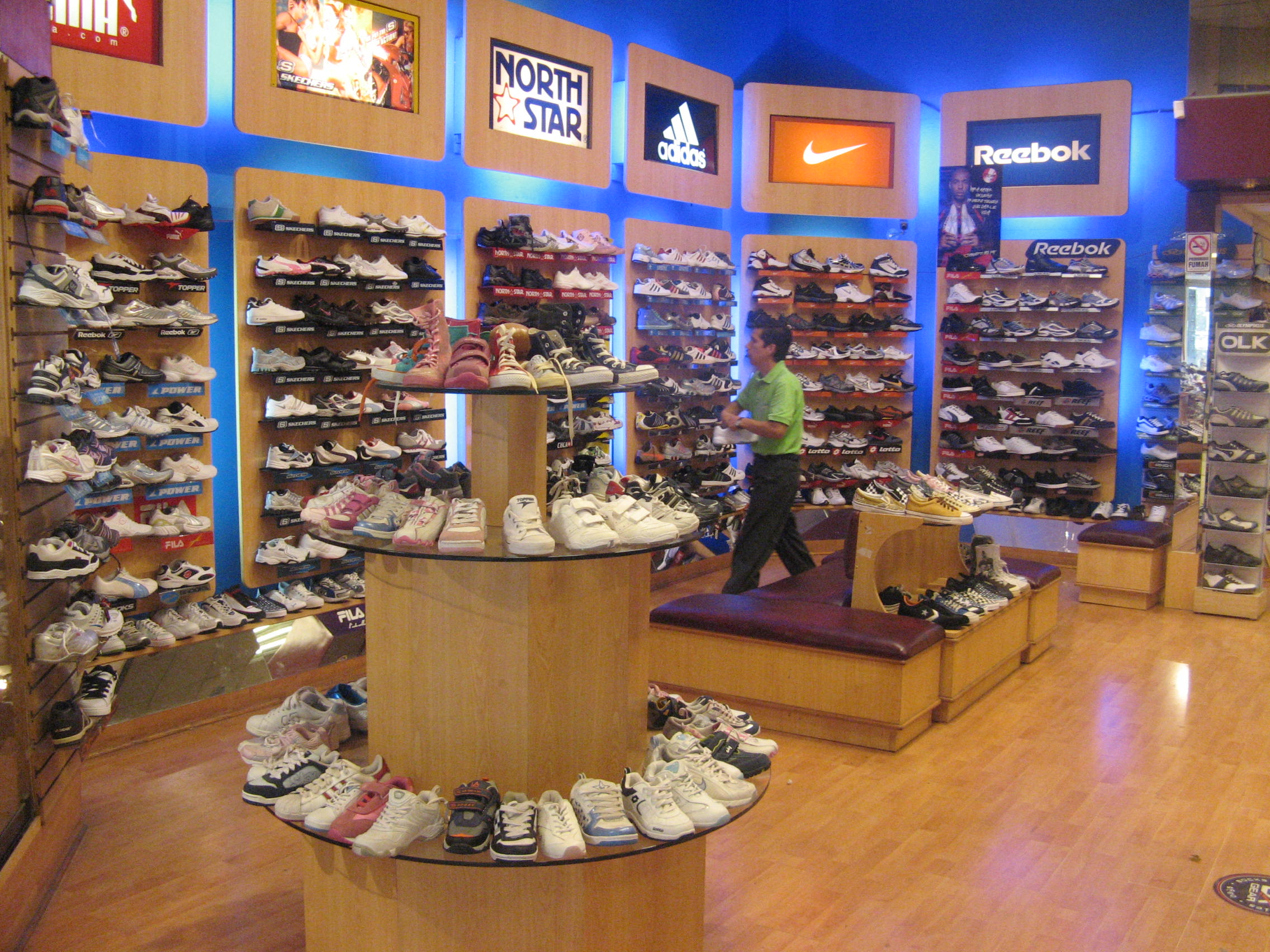 Shoe store "La Americana" in Curicó, Chile.